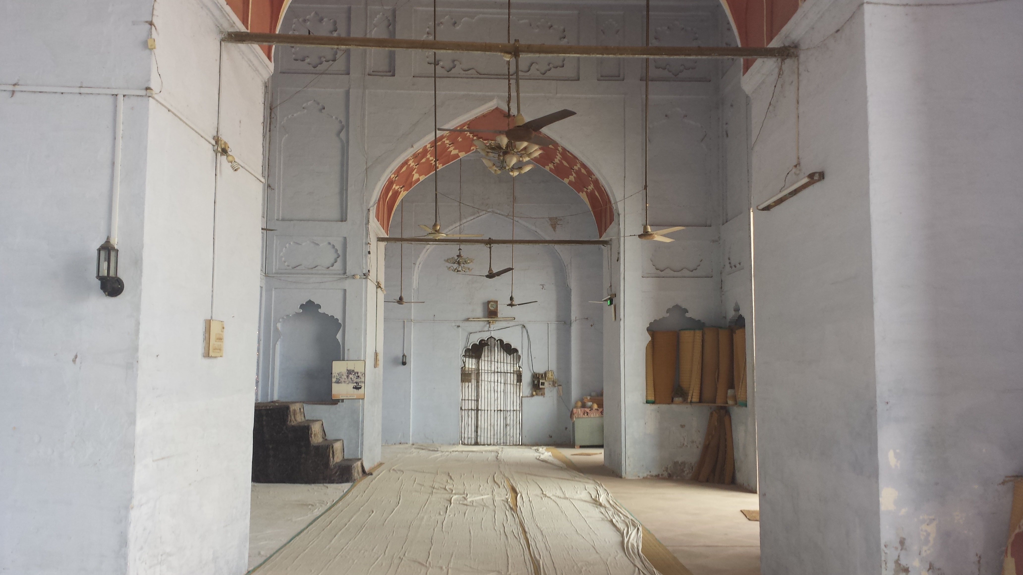 Interior of Alamgir Mosque in Varanasi, India. October 2014.